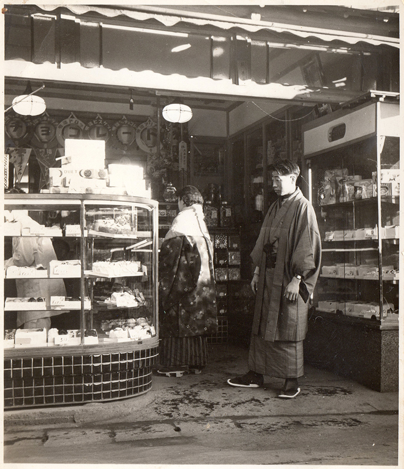 kyodo daieido bakery 1952